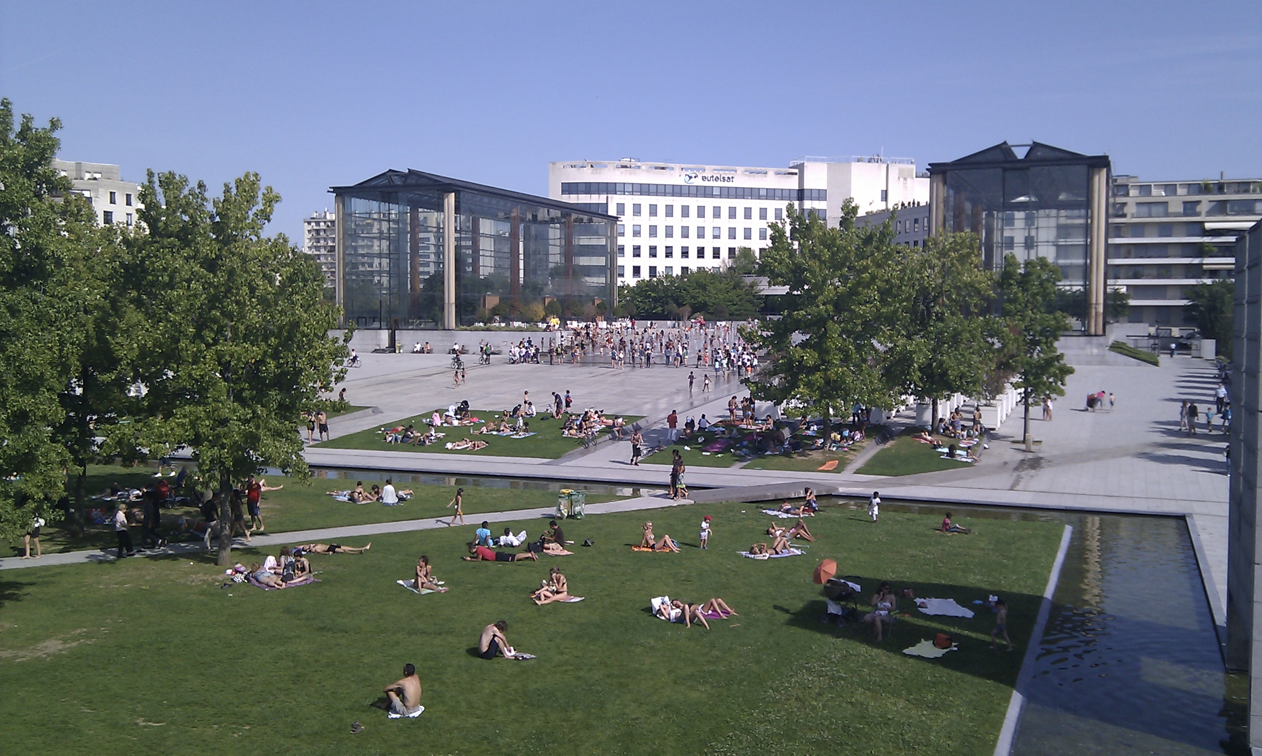 Wide view of the André Citroën Parc's esplanade in summer, with its lawn, the diagonal footpath, its fountains and its emblematic greenhouses.